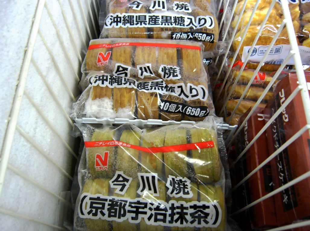 imagawayaki okinawakokutou kyotoujimattya reitou